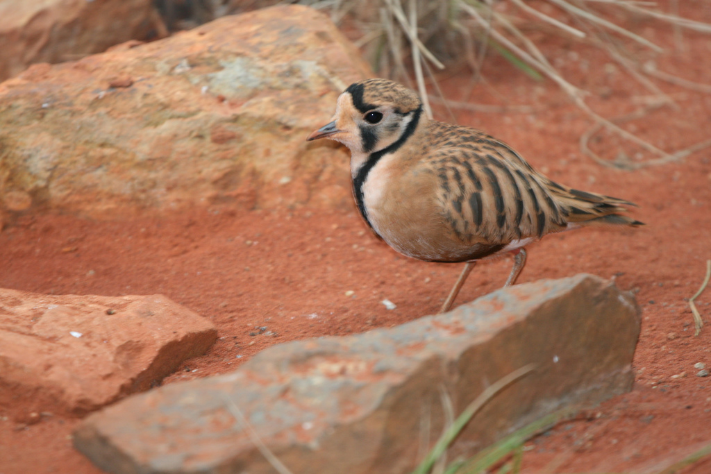 Charadrius australis (Inland Dotterel), captive, Healesville Sanctuary, Victoria, Australia.